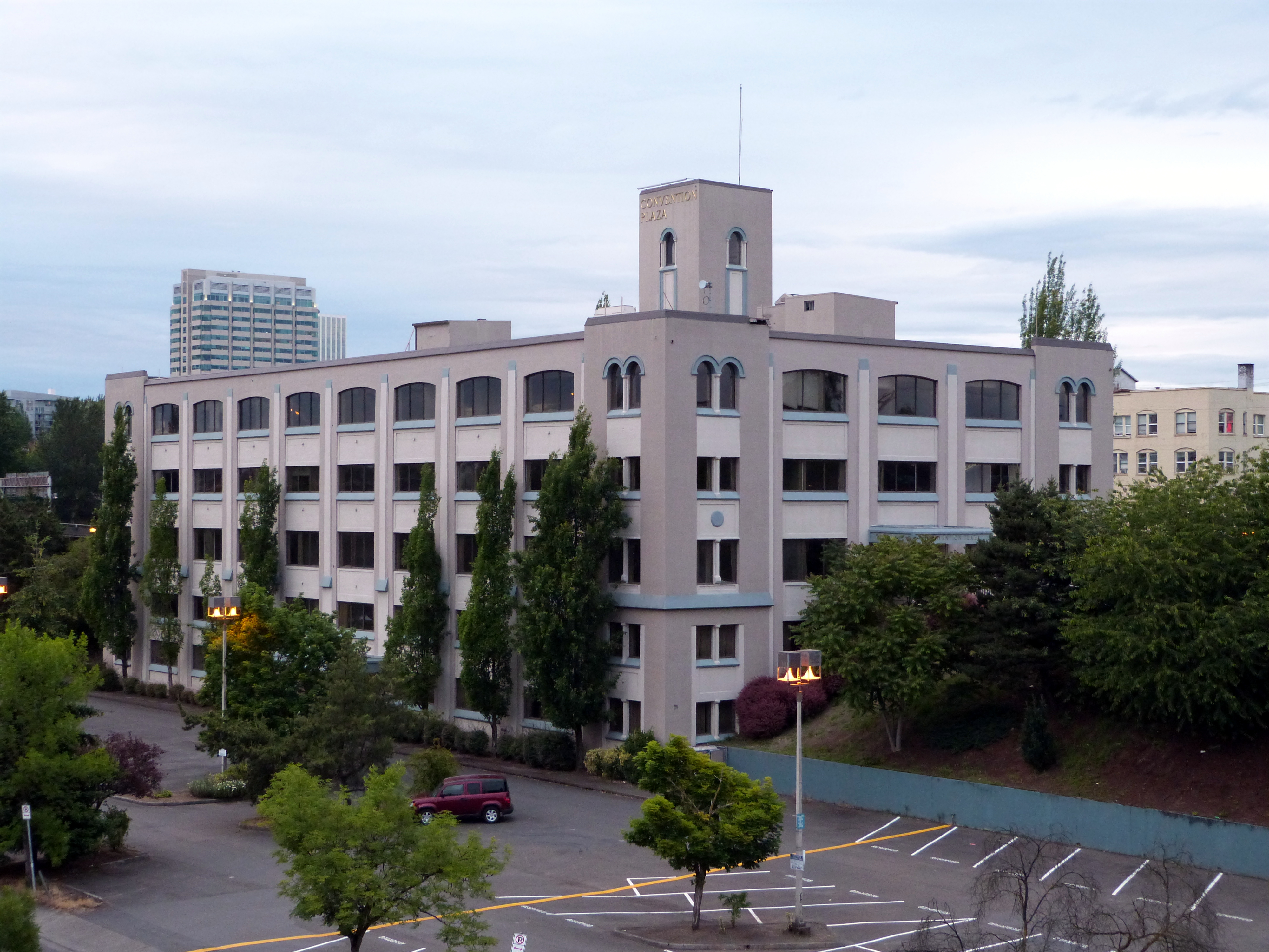 The historic Ira F. Powers Warehouse and Factory (built 1925), located at 123 NE 3rd Avenue in Portland, Oregon, United States, is listed on the US National Register of Historic Places (NRHP). It was an important furniture factory, later converted into war worker housing during World War II.